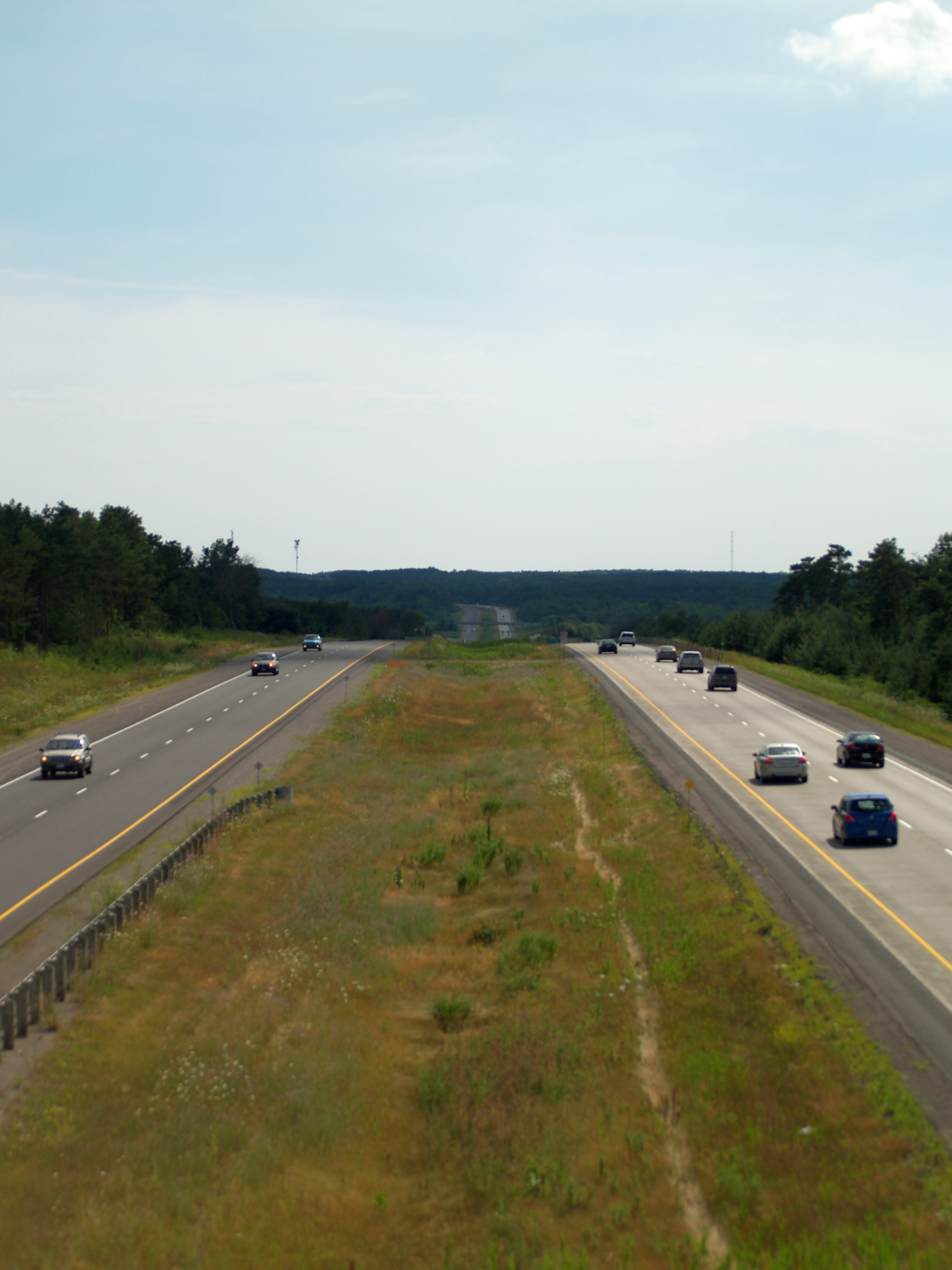 Highway 115 facing southwest from the Kawartha Lakes City Road 12 overpass.